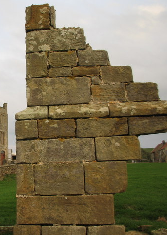 The ruined corner which is all that remains of the C13th Roxby Hall (cropped from File:St Nicholas Church and ruin of Roxby Hall.jpg)